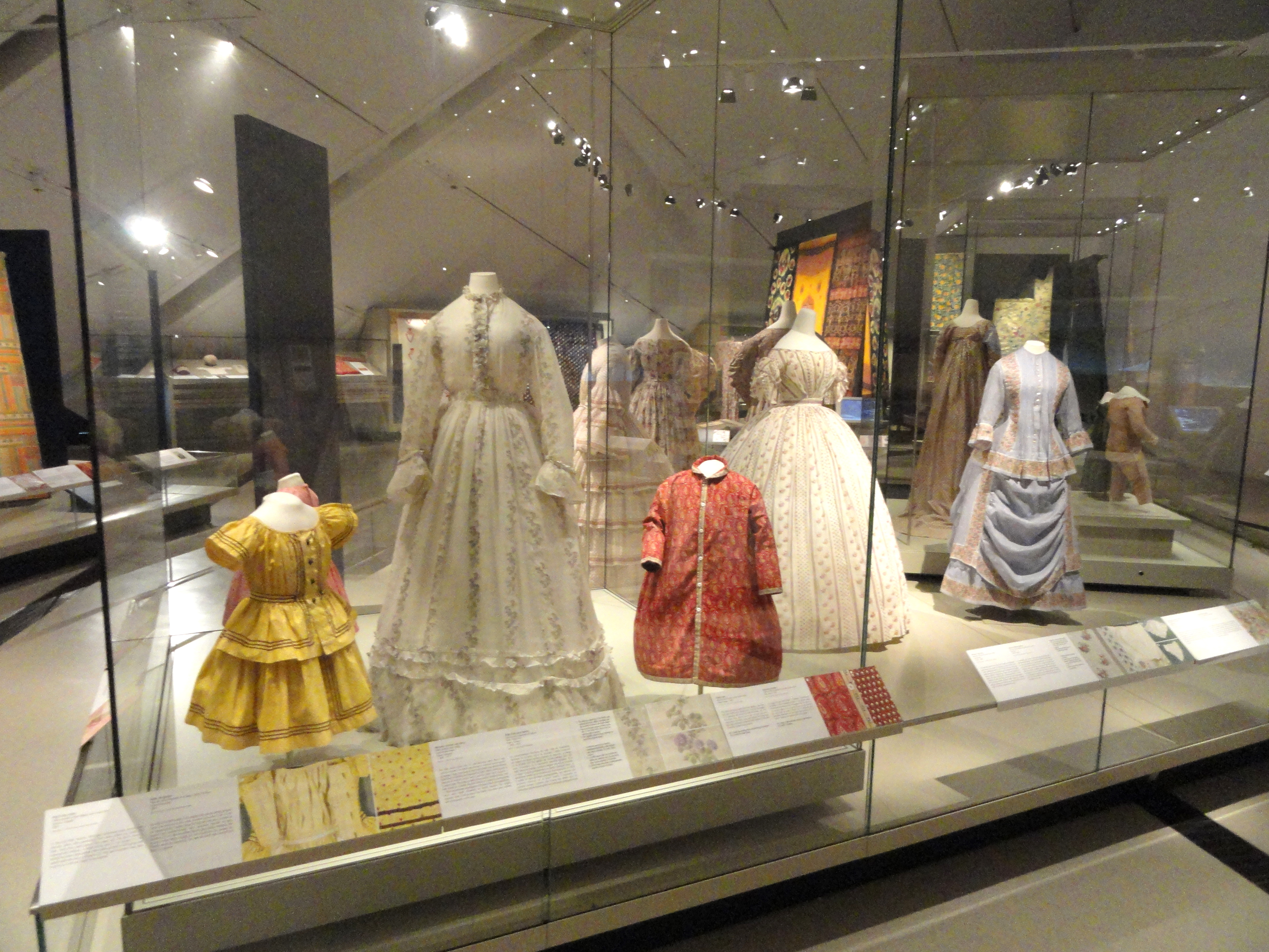 Exhibit in the Patricia Harris Gallery of Textiles & Costume, Royal Ontario Museum, Toronto, Ontario, Canada. This exhibit is old enough so that it is in the public domain, and photography was permitted in the museum. I took this photograph and release it into the public domain.